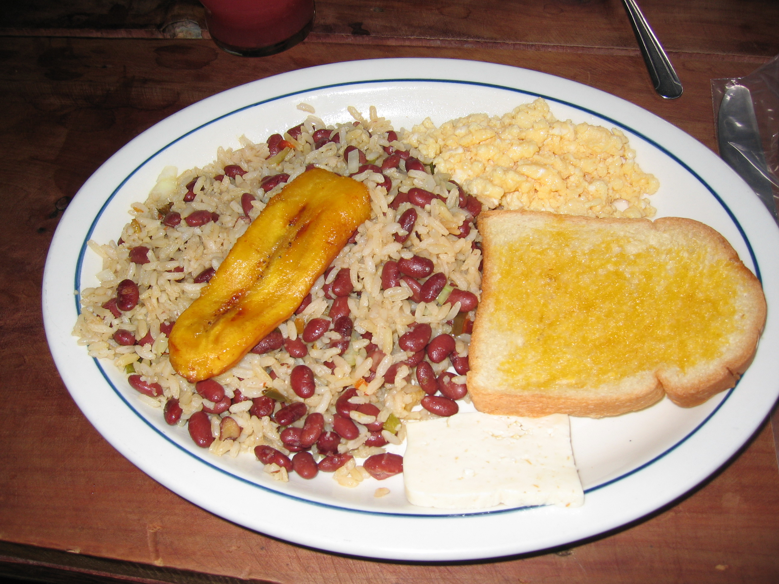 A Costa Rican Breakfast; rice and beans with eggs, toast, fried banana, and a slice of white cheese.